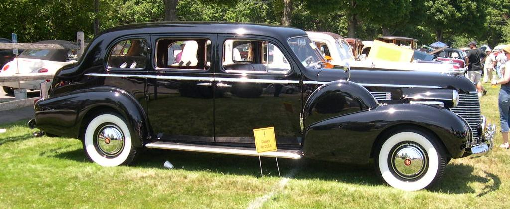 1940 Cadillac Series 75 Source: Photographed at the Bay State Antique Automobile Club's July 10, 2005 show at the Endicott Estate in Dedham, MA by User:Sfoskett